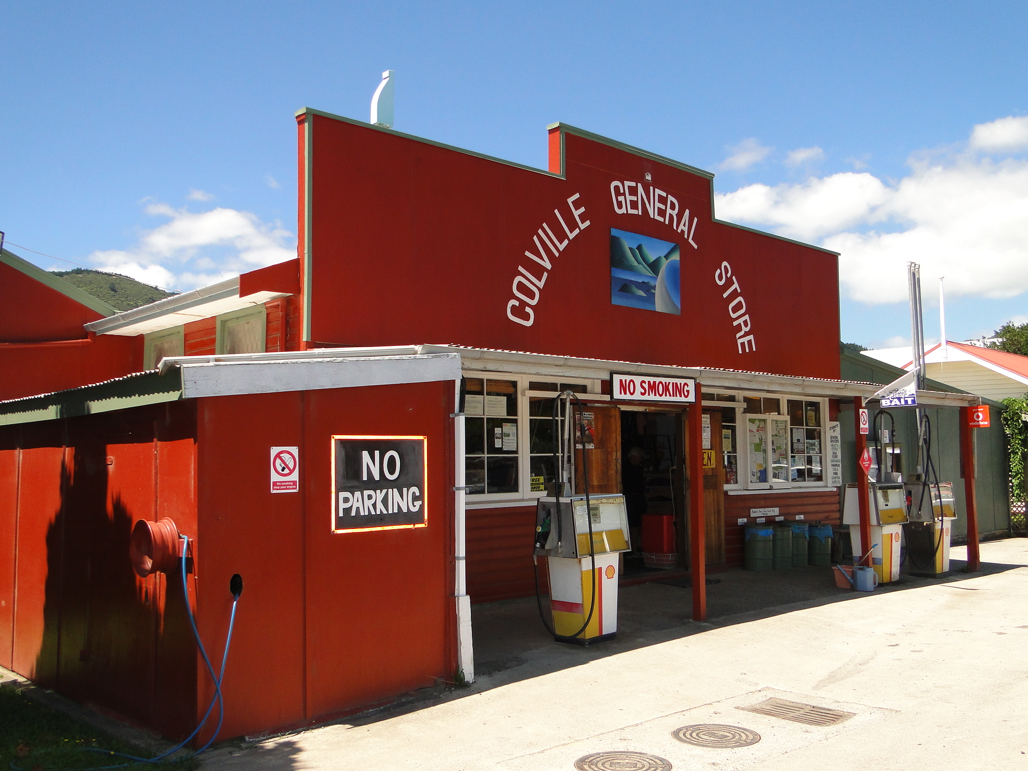 The General Store in Colville, New Zealand.